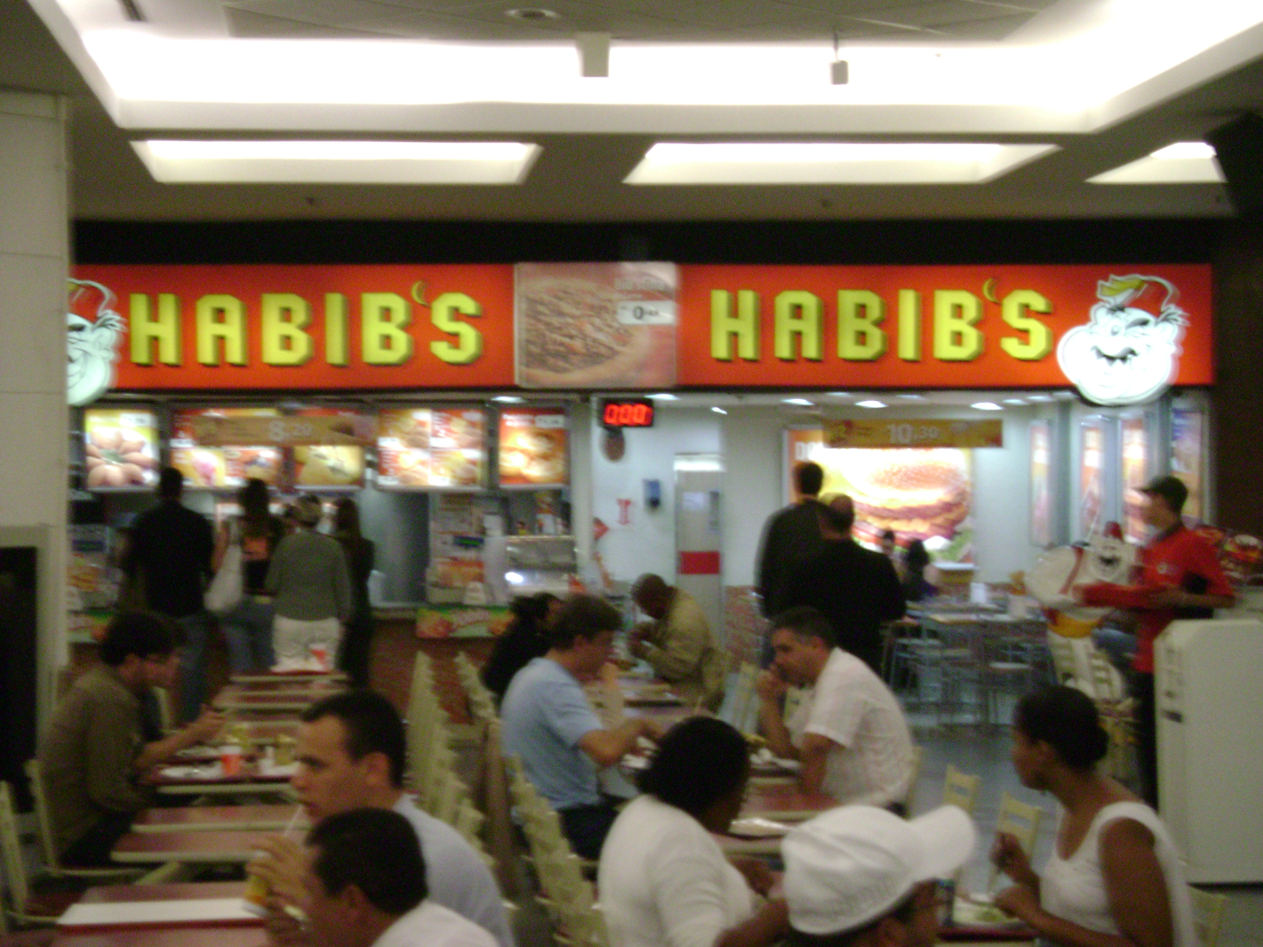 Habib's, em praça de alimentação do Shooping Cidade, em Belo Horizonte.